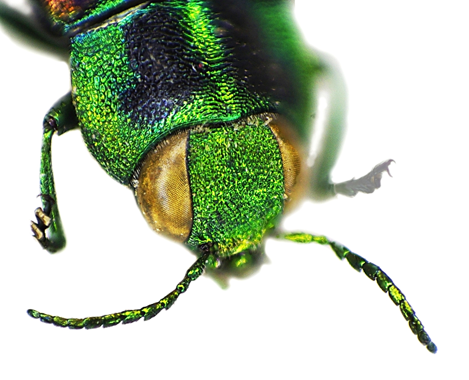 Front of Anthaxia candens